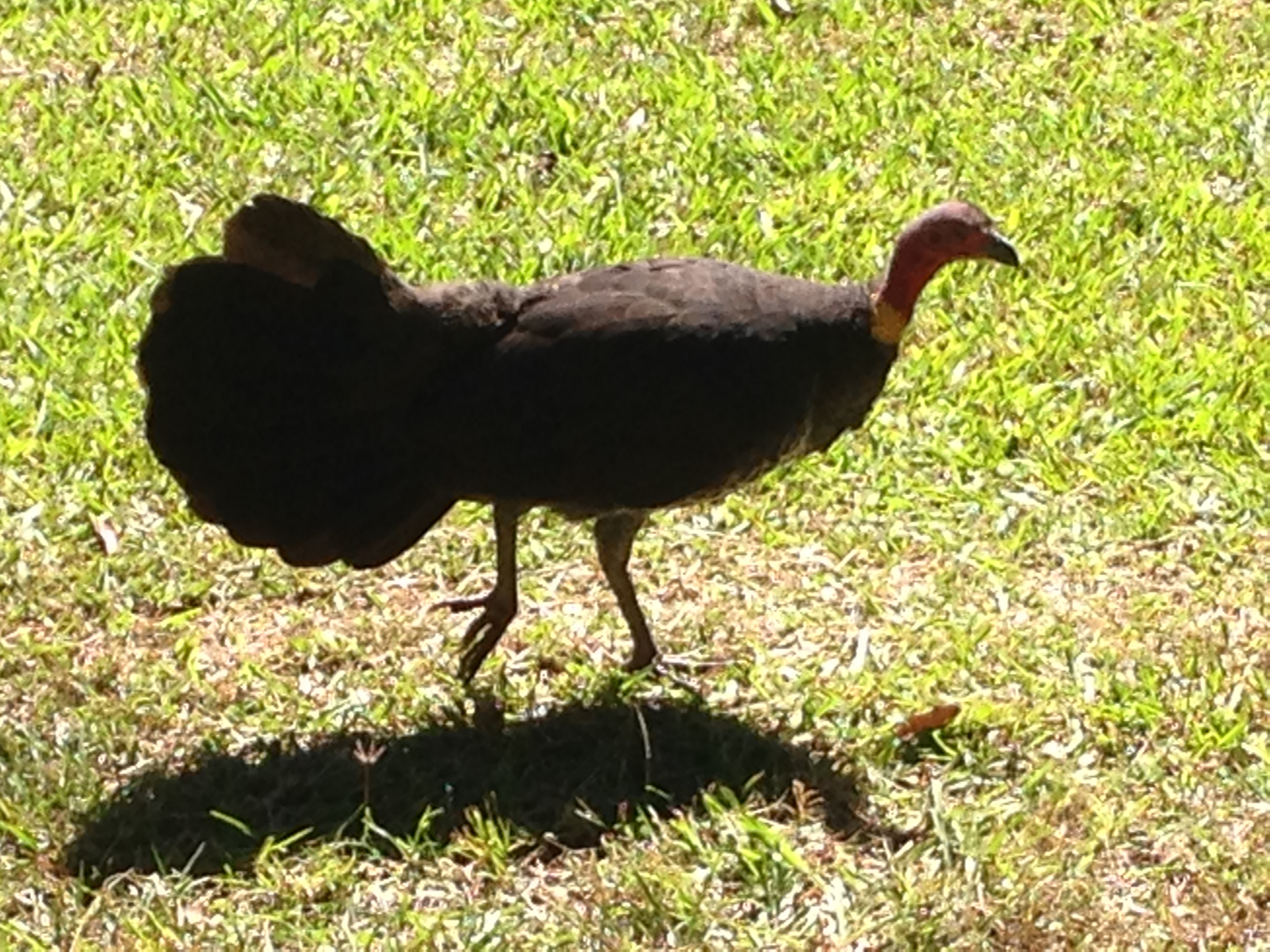 Australian Brush-turkeys are common in the rainforest and day use areas at Eungella National Park